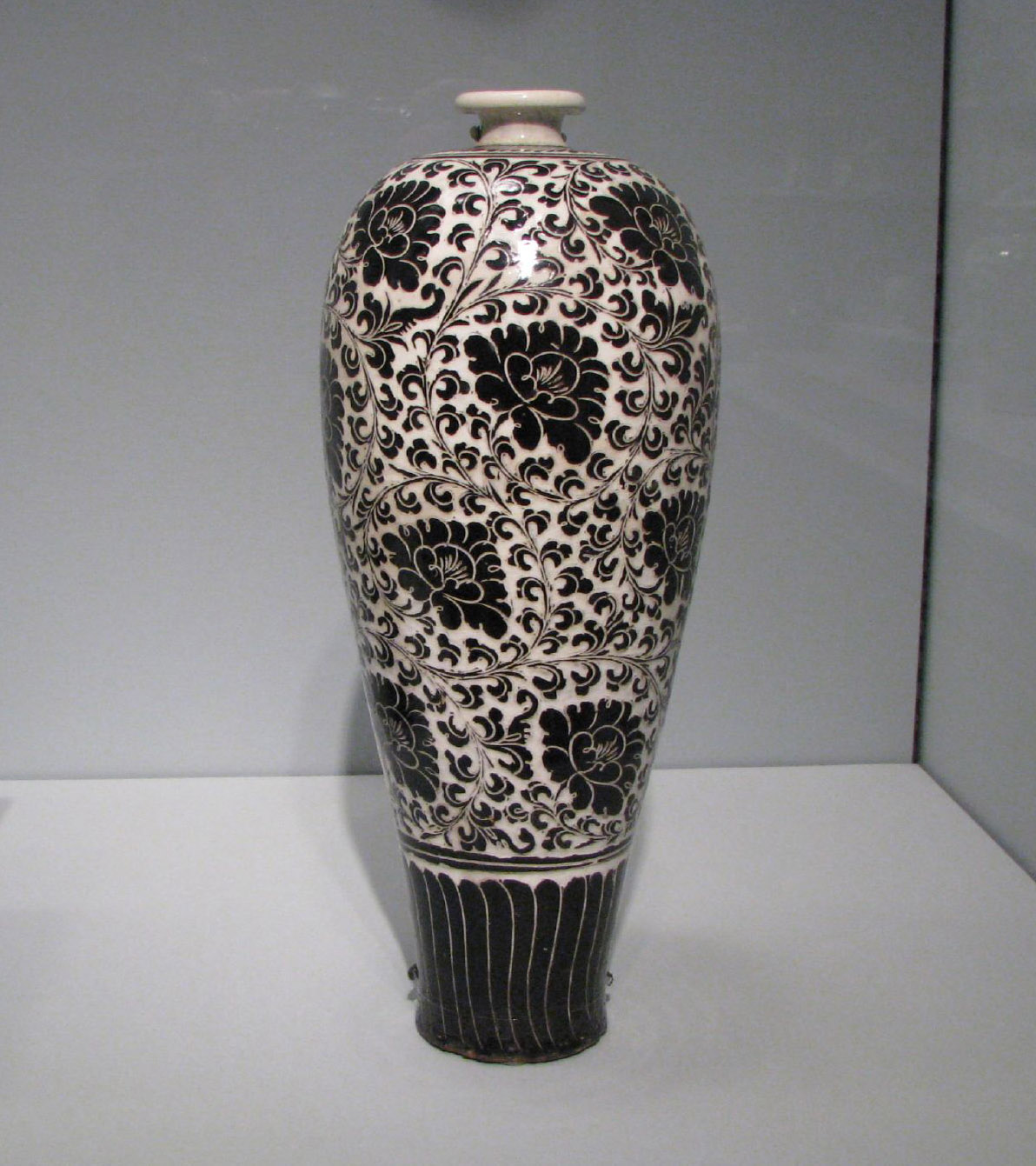 Vase with peony scrolls Cizhou ware